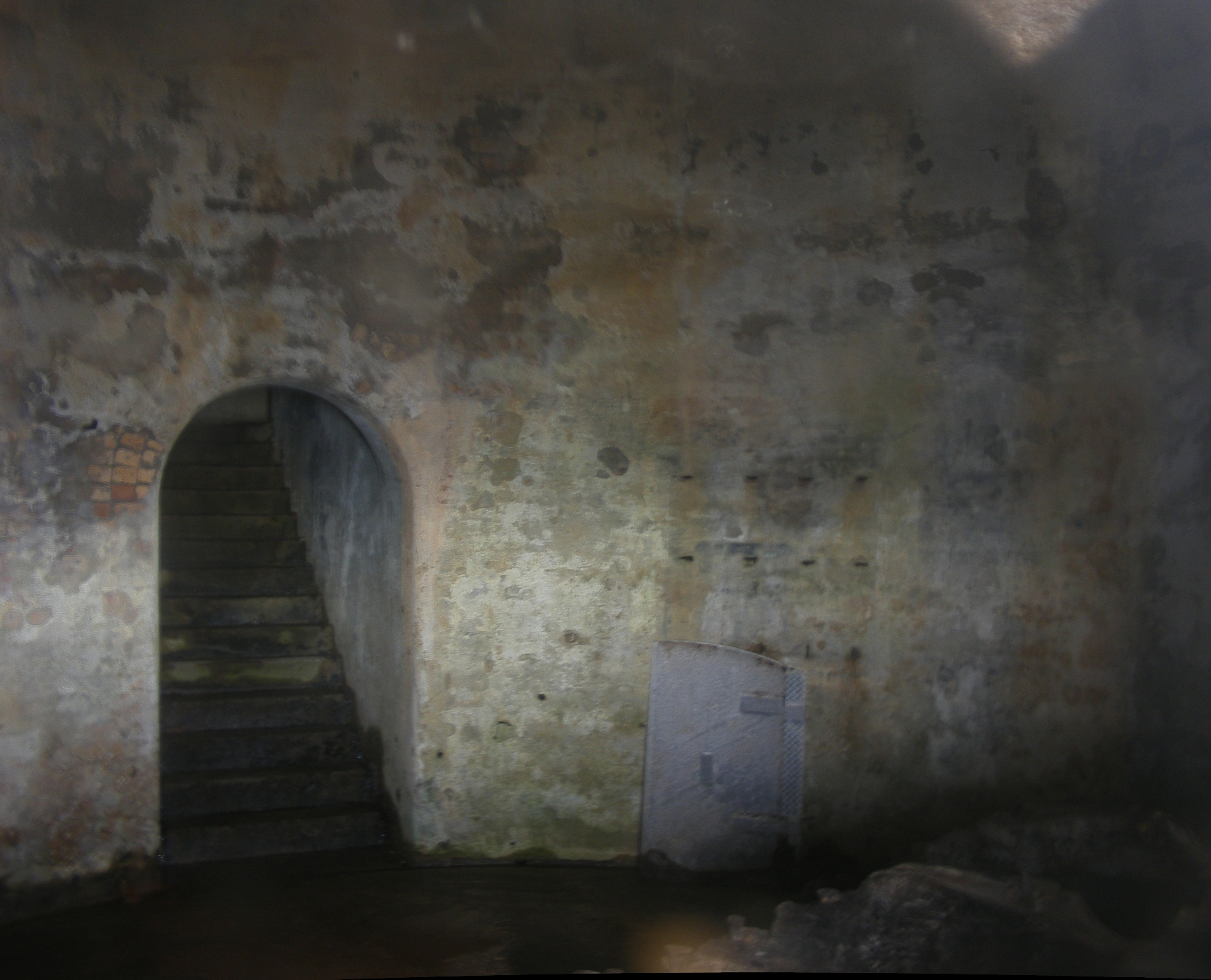 A fortification located on the shores of Sydney Harbour